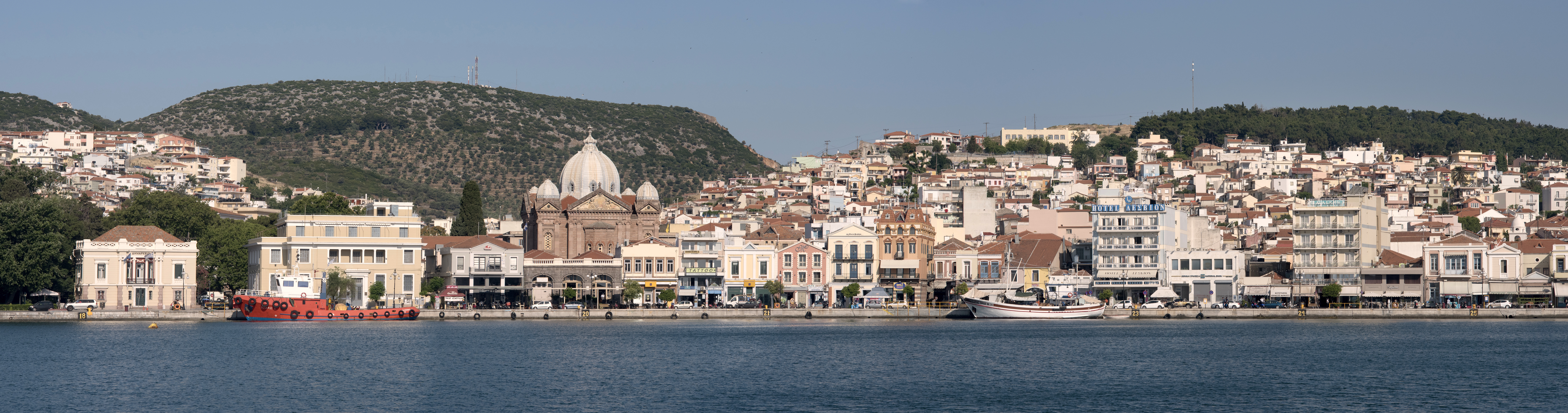 Panoramic image of Mytilene on the Greek island of Lesbos